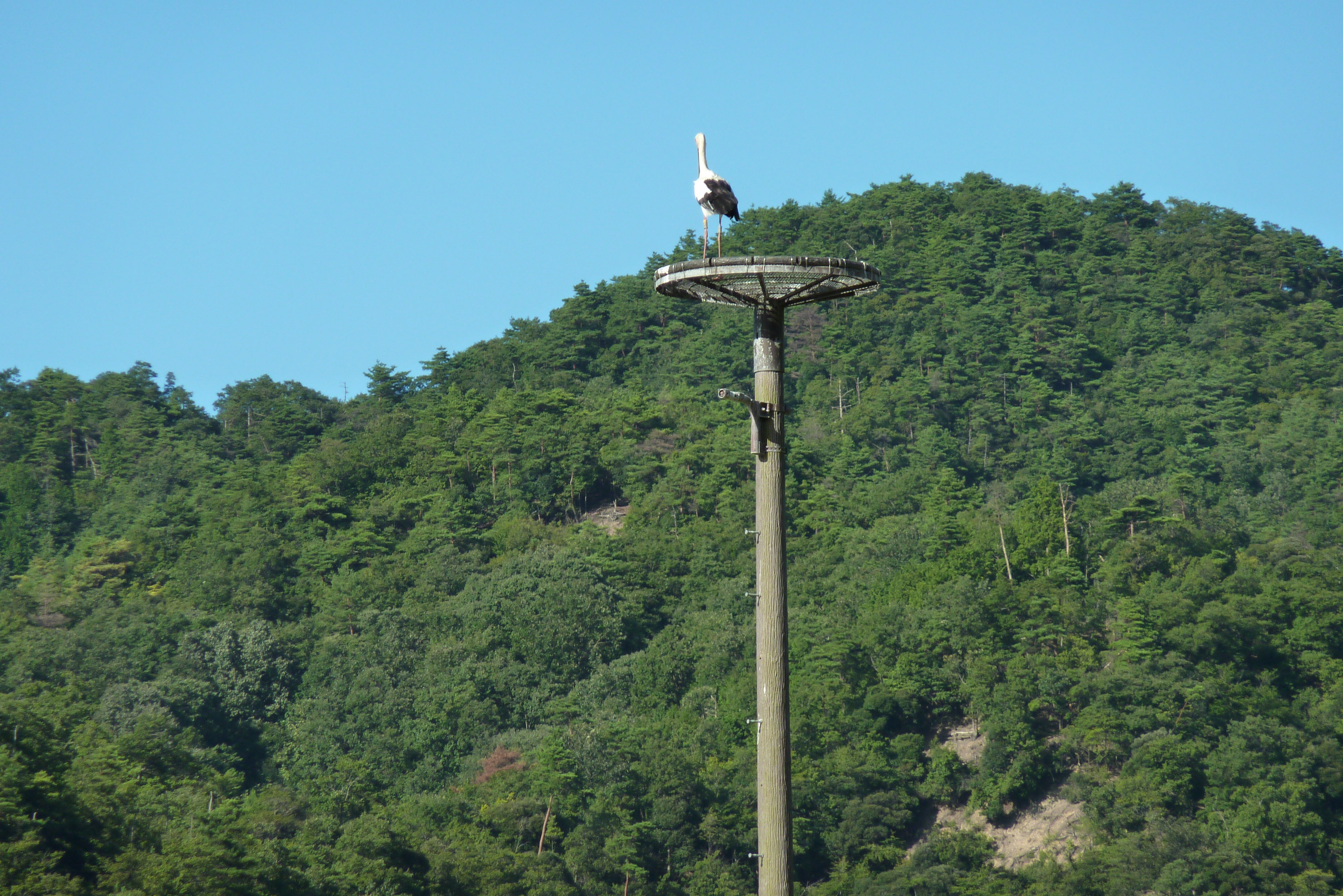 White Stork